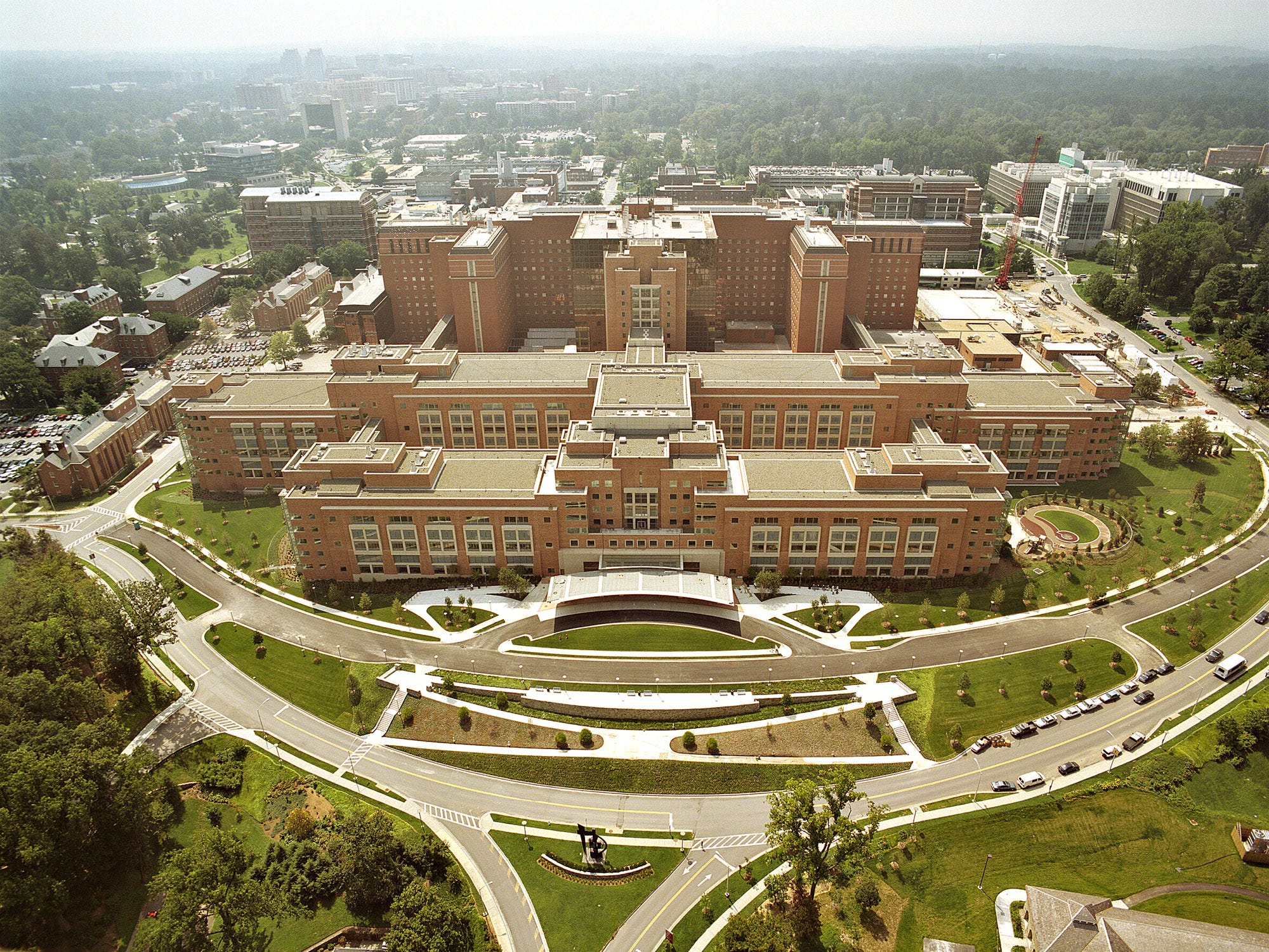 Aerial photograph from the north of the Mark O. Hatfield Clinical Research Center (Building 10) on the National Institutes of Health Bethesda, Maryland campus